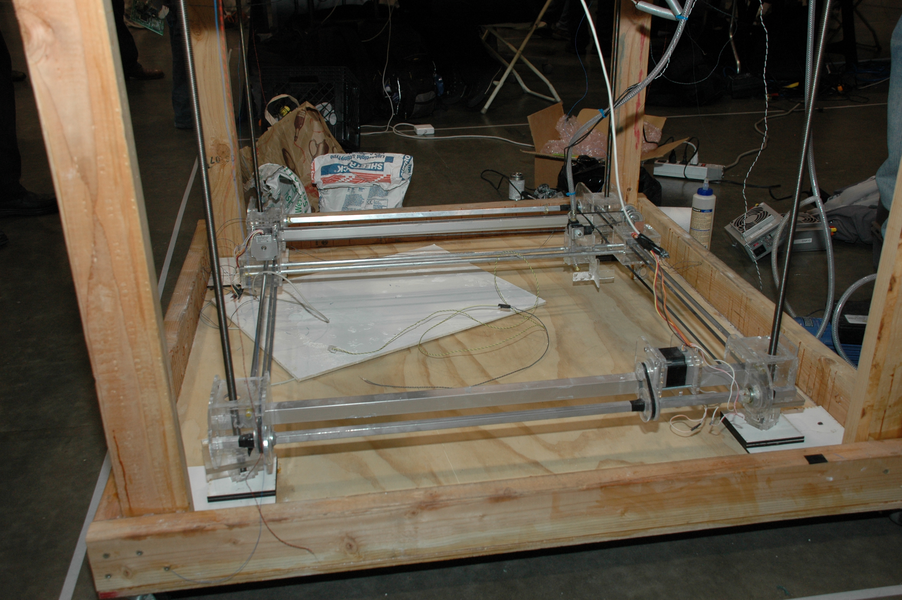 Maker Faire 2008, San Mateo - a 3D concrete printer